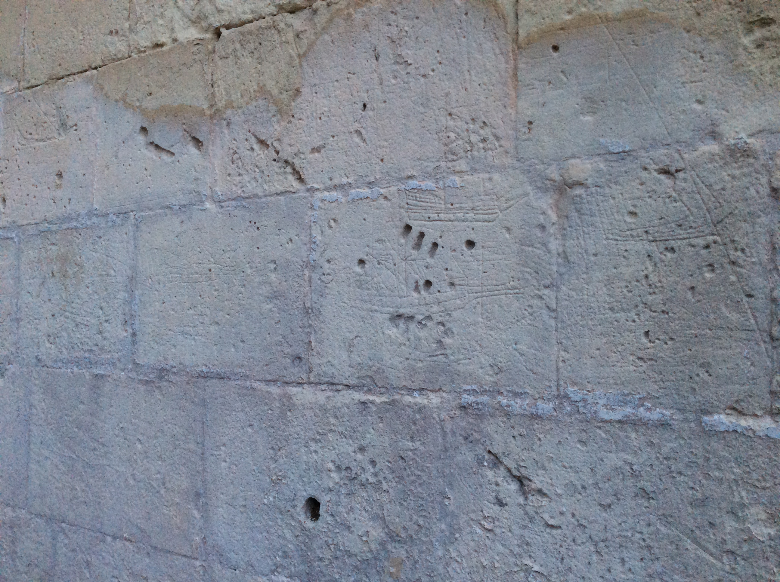 St Mary's Parish Church This media is about Maltese cultural property with inventory number 00293.